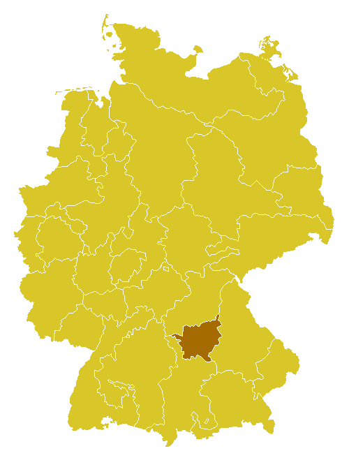 map of Roman catholic dioecese Eichstätt